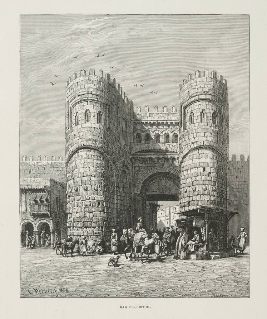 A tall stone gate to the inside of the city, with people milling around outside.